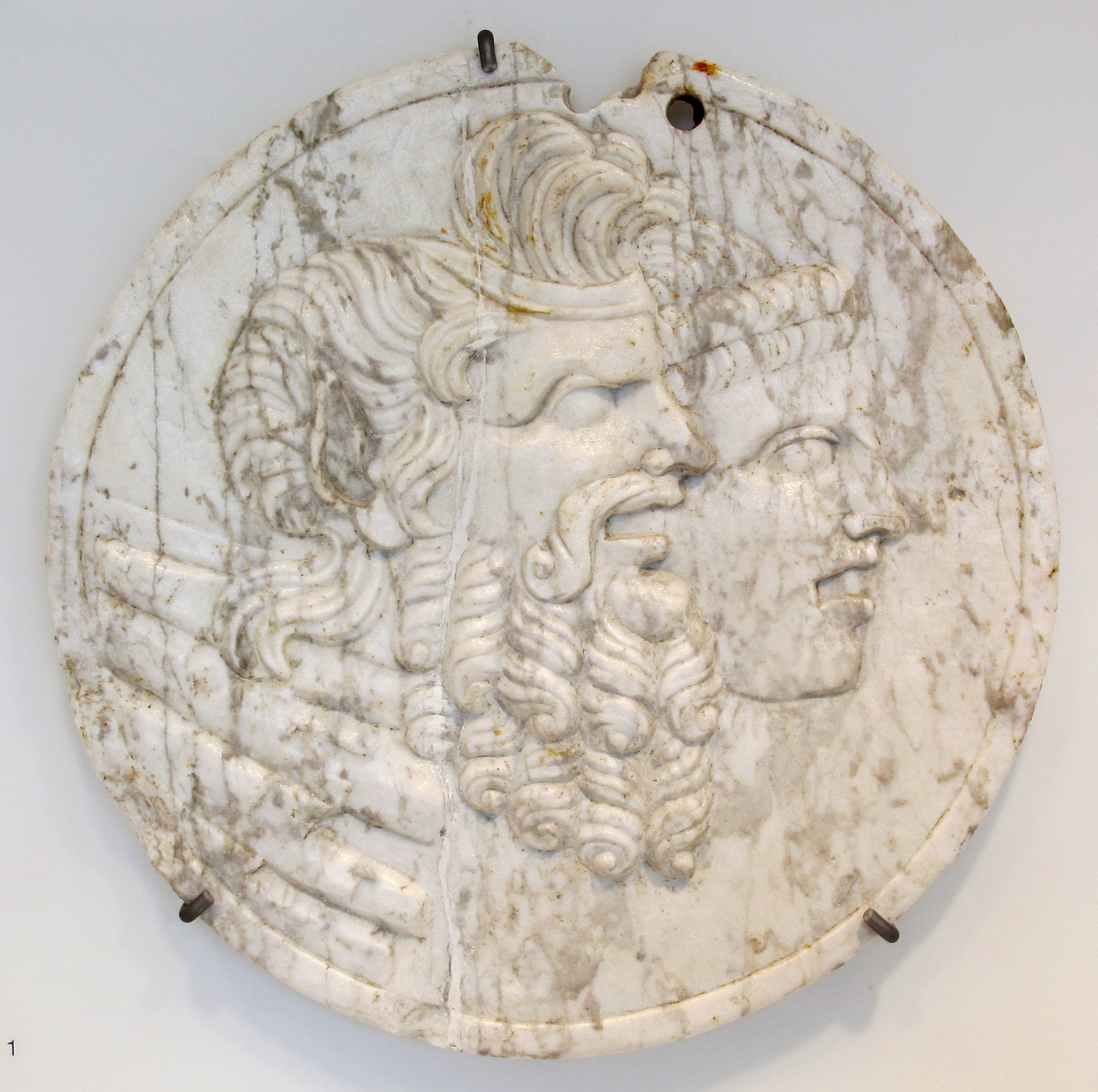 Roman antiquities in the Musée d'art et d'histoire de Genève